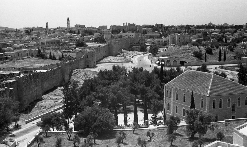 A view of the Christian Quarter from the Rockefeller Museum's rooftop